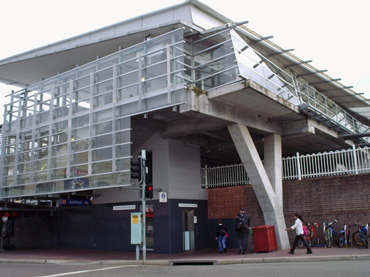 Outside of Ashfield railway station